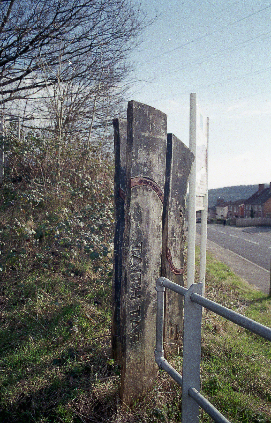 Wooden sign marking the Taff Trail public footpath in Rhydyfelin, south Wales.